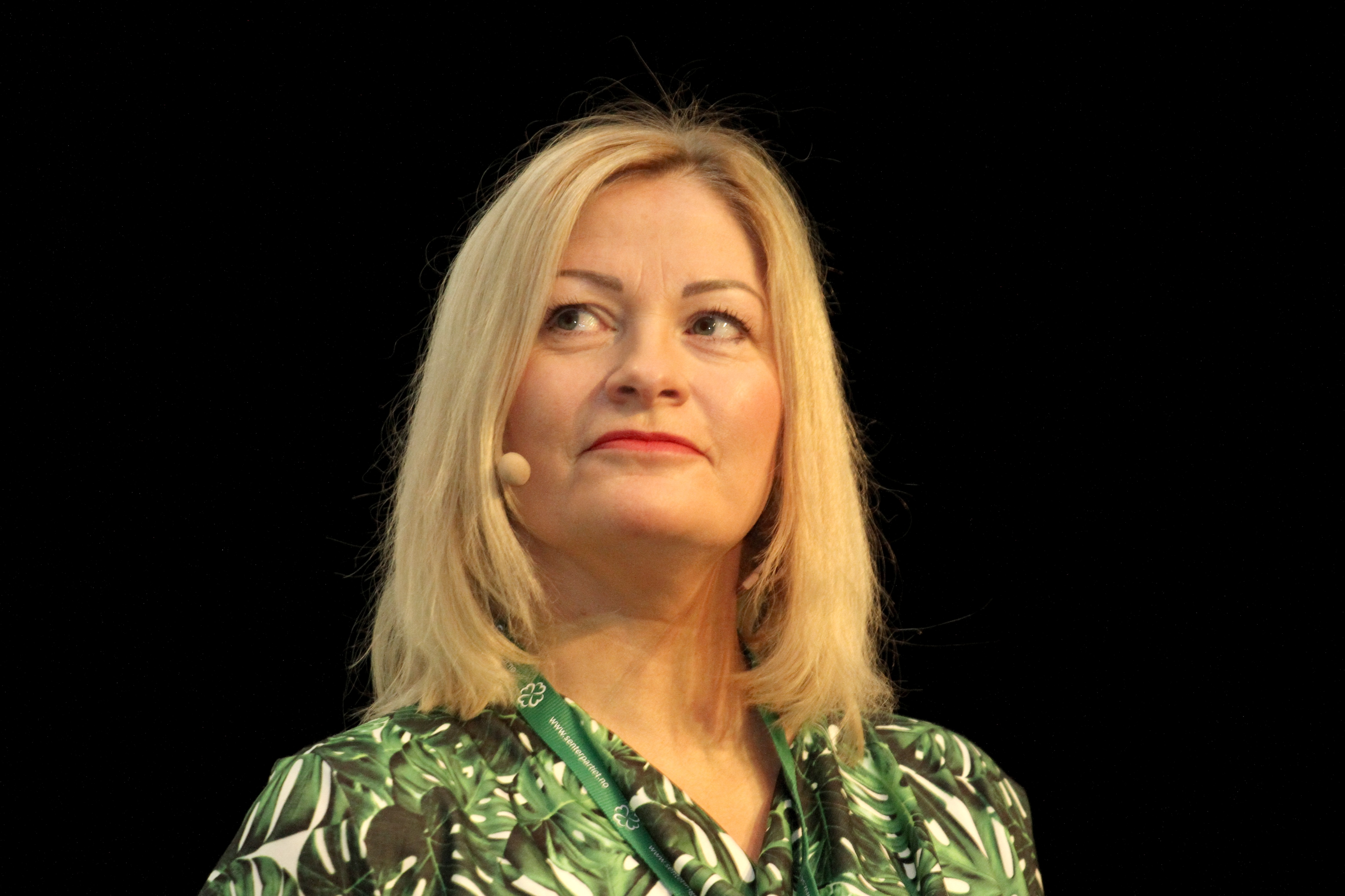 Jorid Jagtøyen